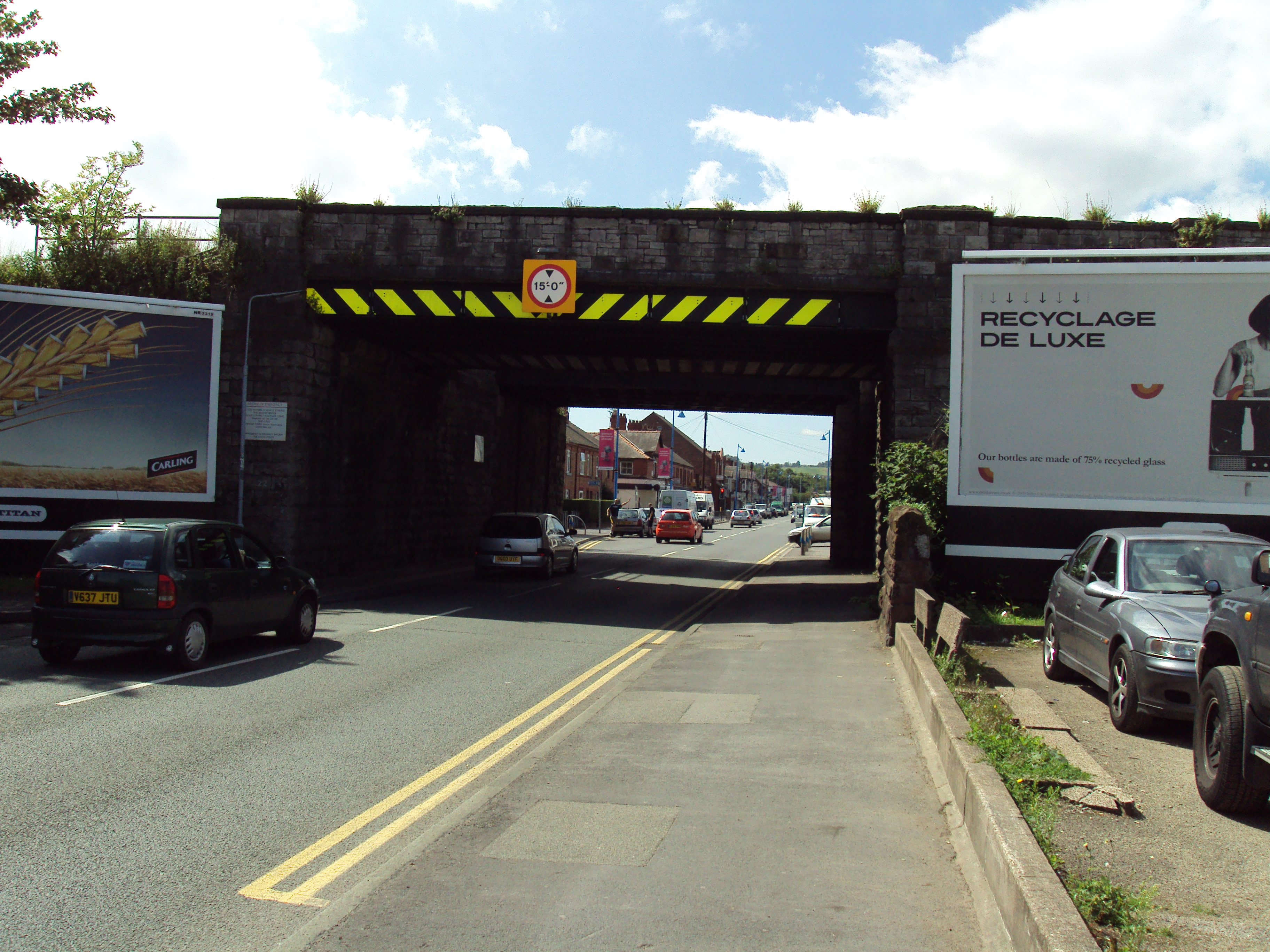 The North Wales coast railway line passes over the B5441 Station Road at Queensferry, Deeside, Flintshire, Wales.